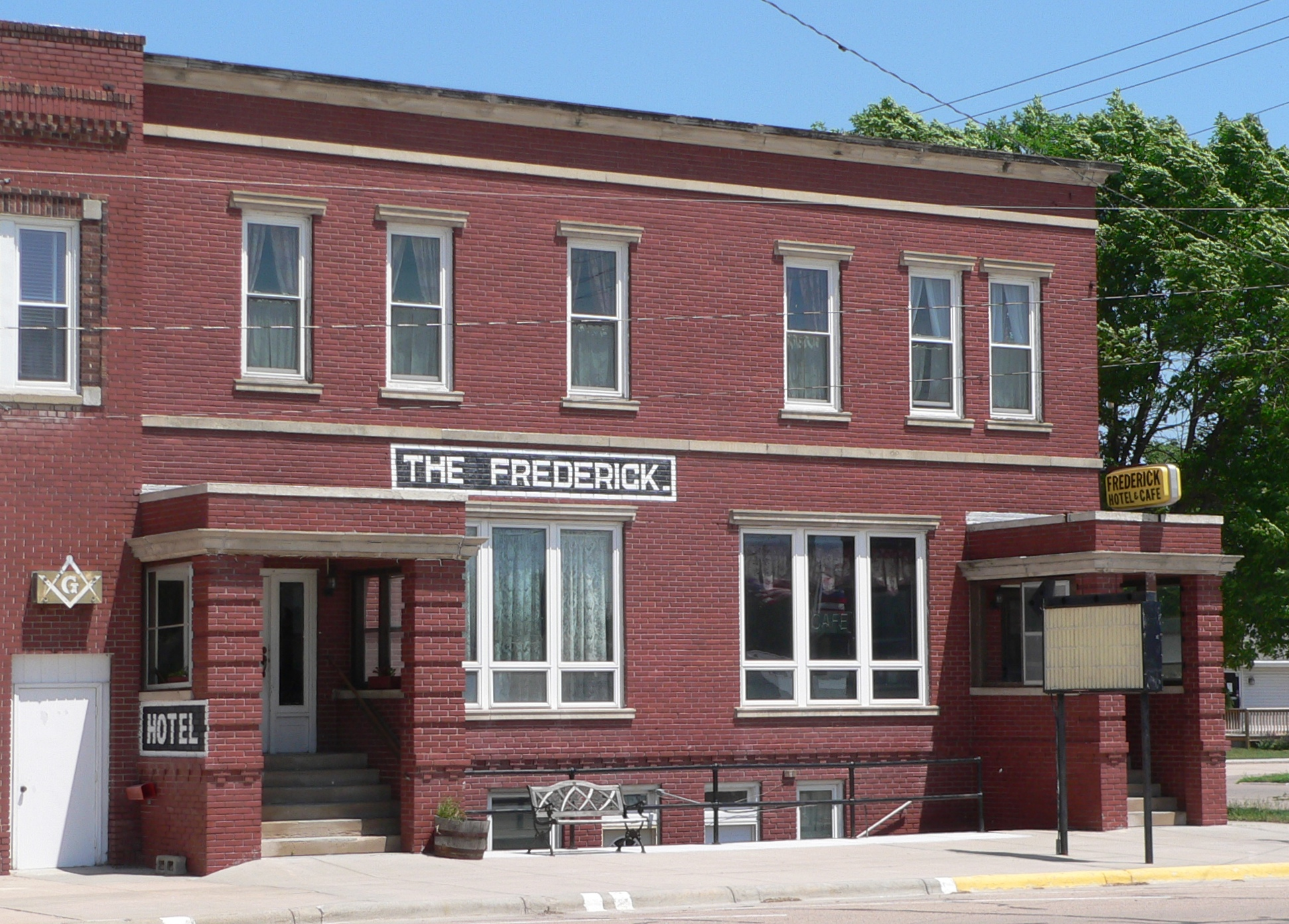 Frederick Hotel in Loup City, Nebraska; seen from the southwest. The building was constructed in 1913; it is listed in the National Register of Historic Places.